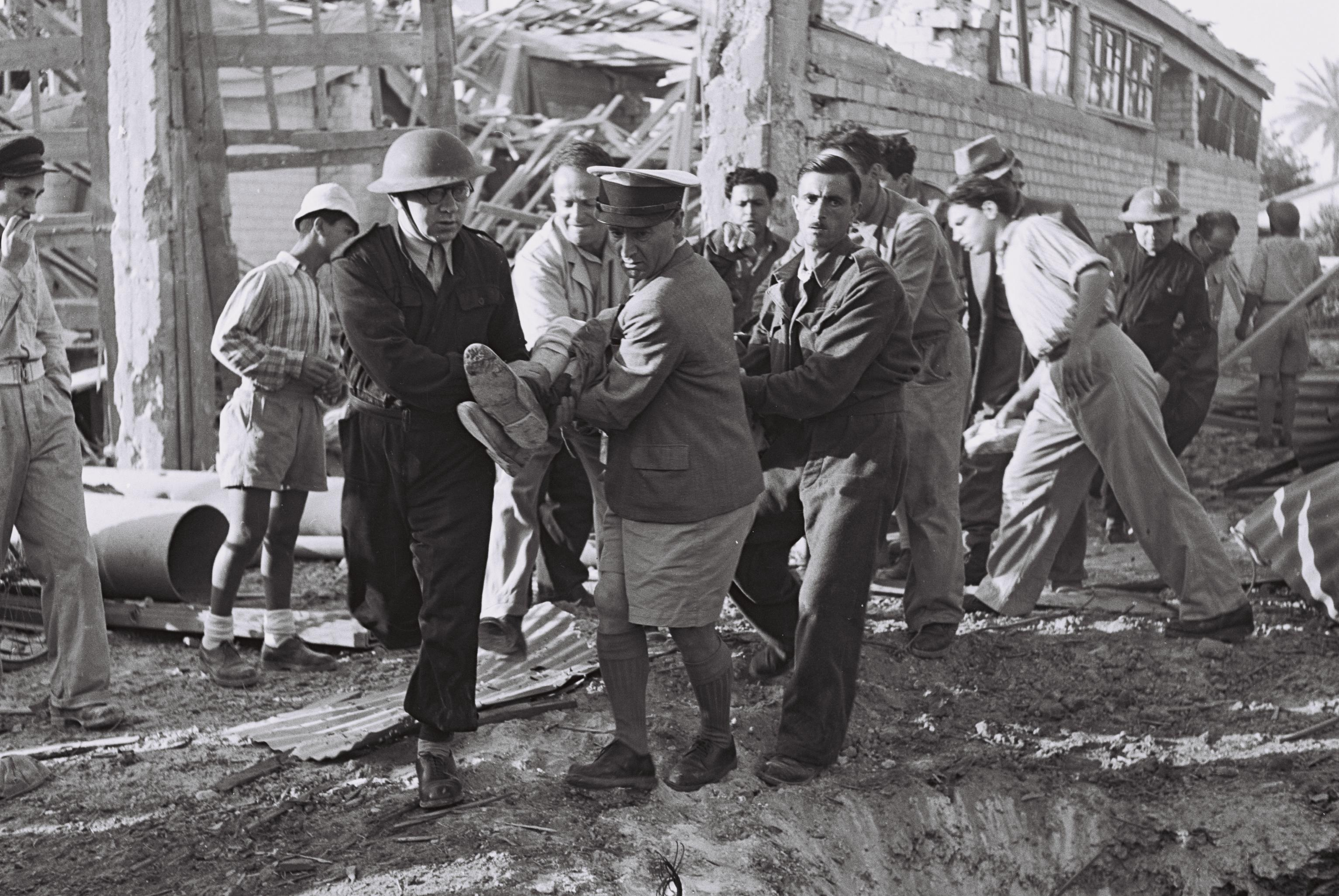 Hagana volunteers evacuating a man wounded in Egypt's bombardment of Tel Aviv during the War for Independence.